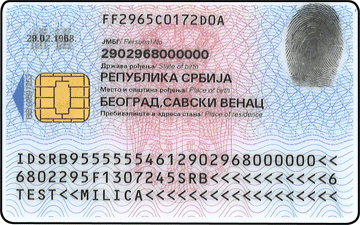 Obverse of a chipped Serbian national ID card's back.